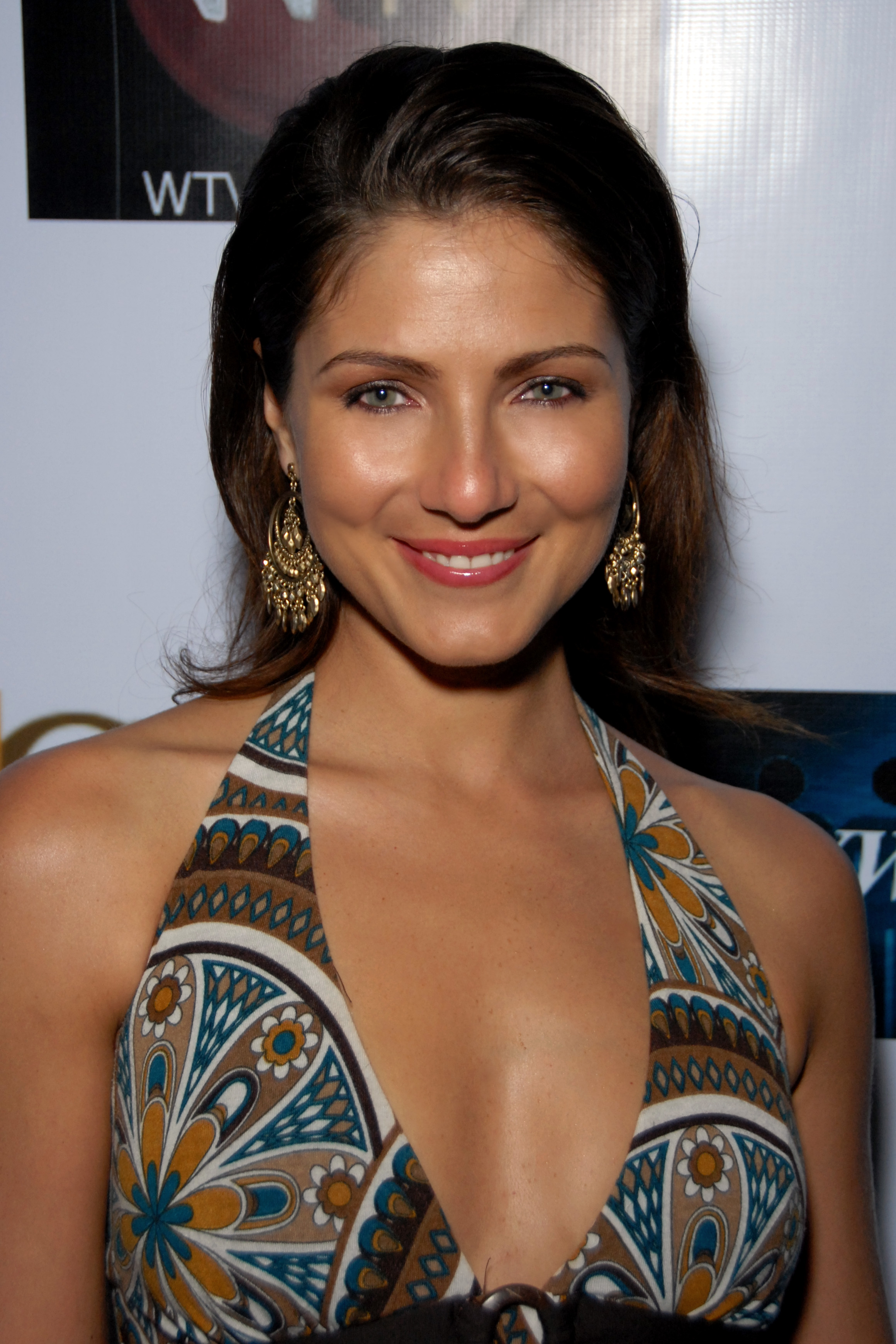 Marisa Petroro attending a book signing event for the book "Another Man’s War" by Sam Childers, Beverly Hills, CA on May 5, 2009 - Photo by Glenn Francis of